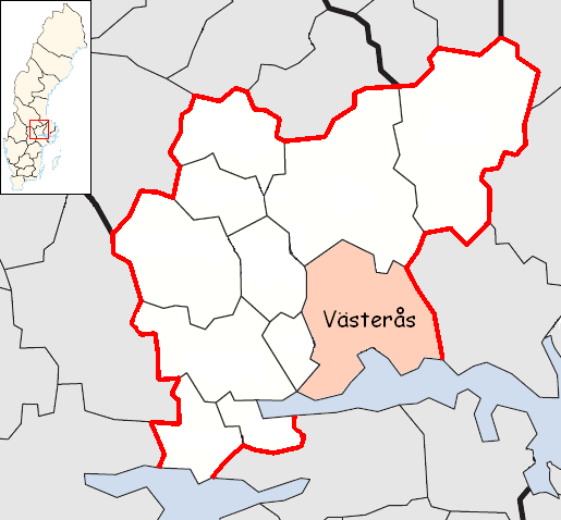 Västerås Municipality in Västmanland County Designed by me. Mere outlines are a PD source from